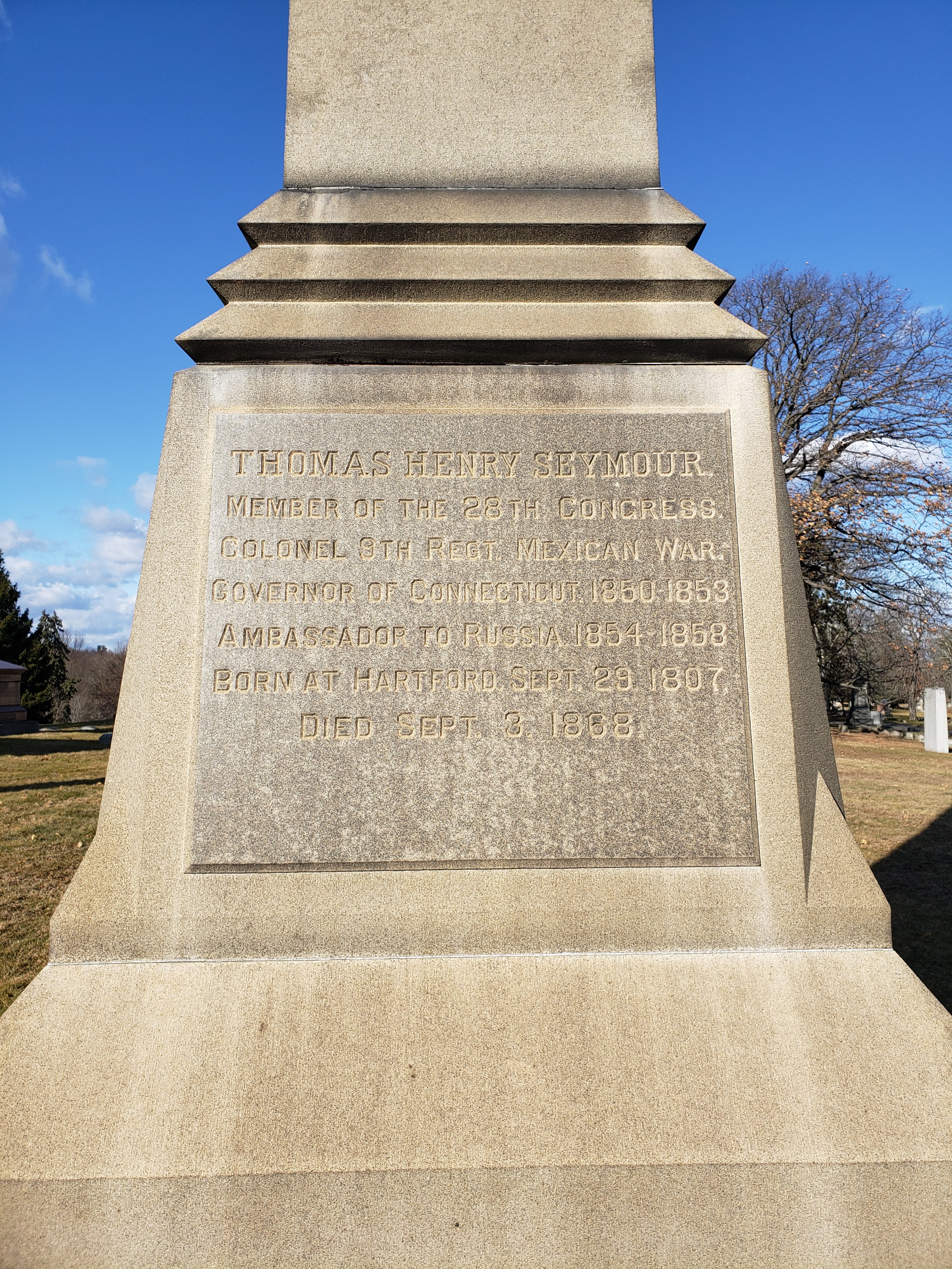 Thomas Henry Seymour gravestone in Cedar Hill Cemetery in Hartford, Connecticut. Photo taken January 2020.